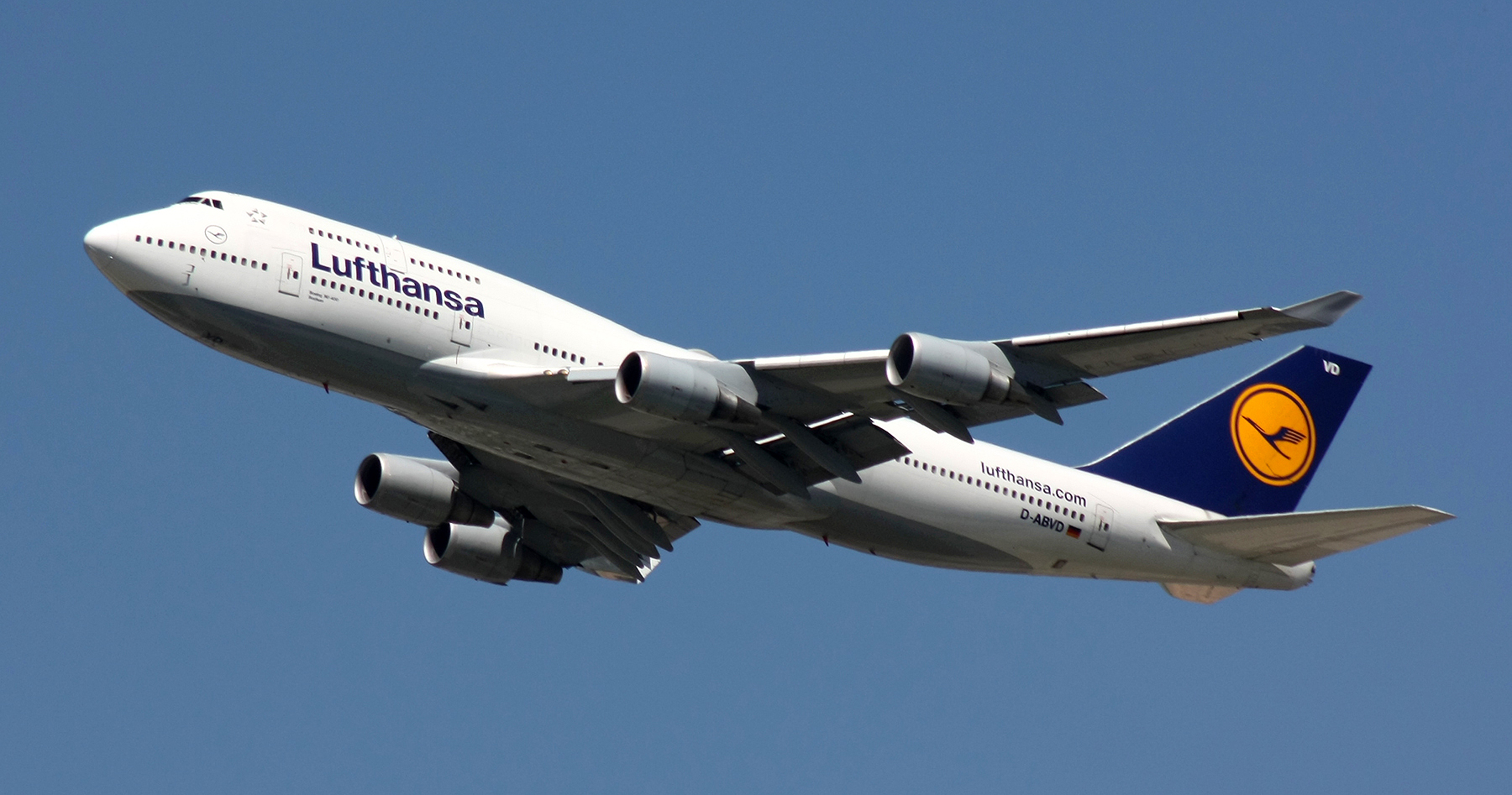 A Lufthansa Boeing 747-400ER departures at Frankfurt Airport.